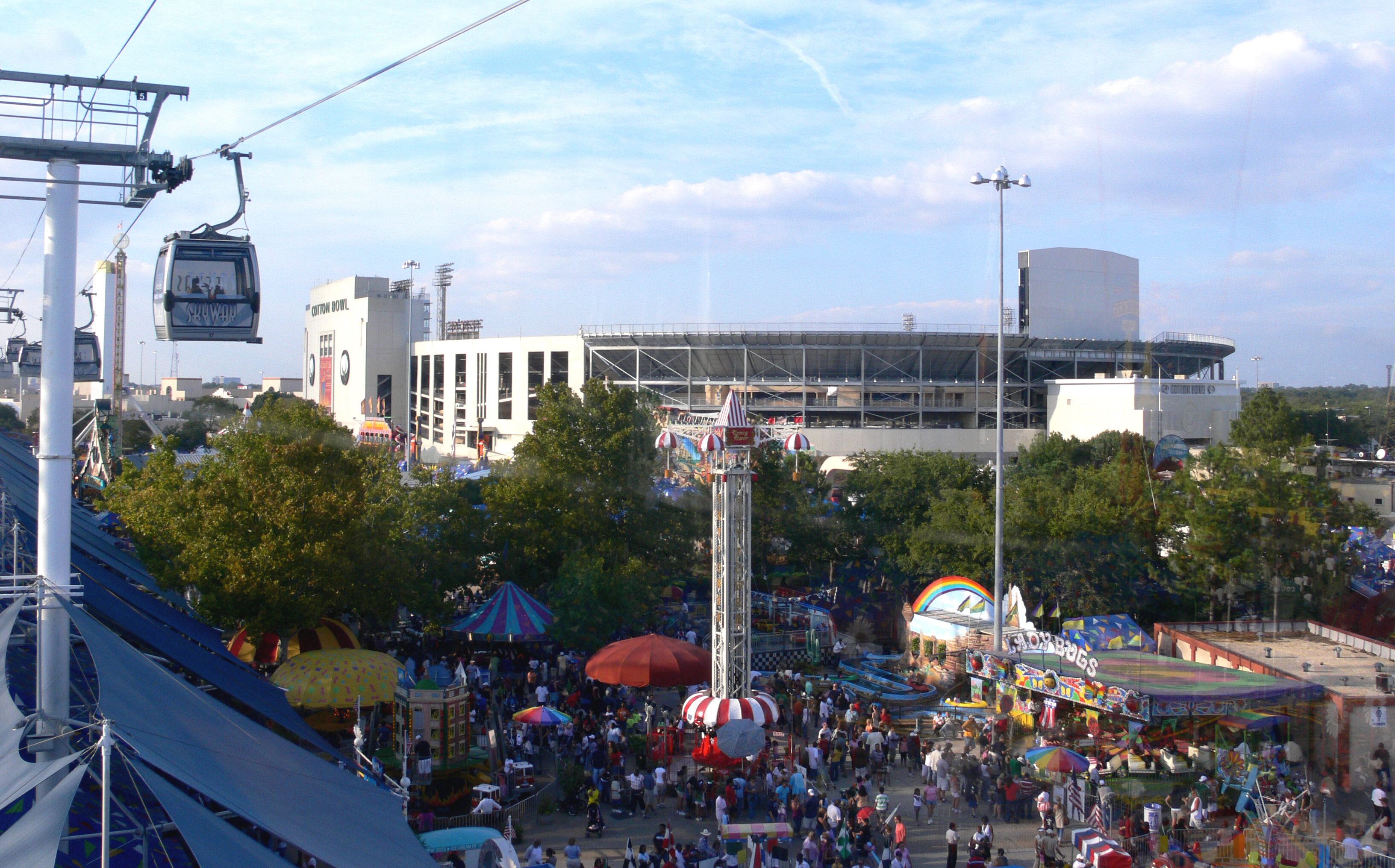 State Fair of Texas 2008, at Fair Park, Dallas, Texas Cotton Bowl as seen from the State Fair SkyWay (a cableway)